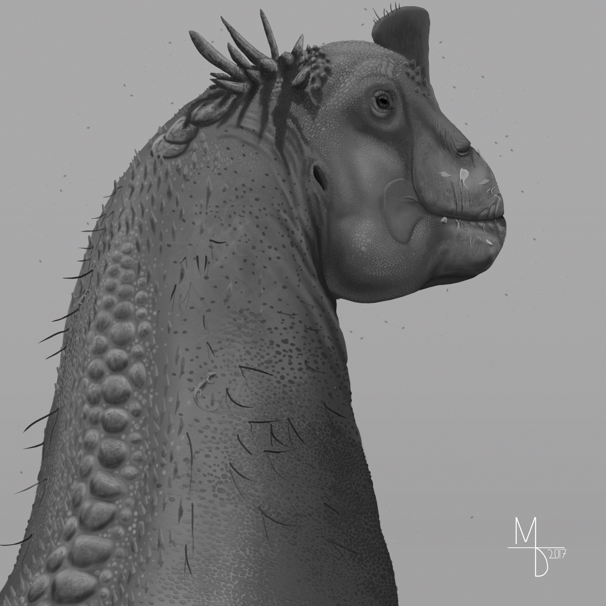 Head reconstruction of Moabosaurus utahensis